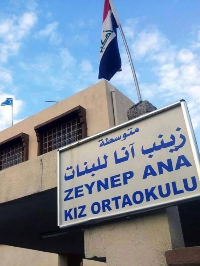 Zeynep Ana Girls Secondary School, in Iraq.